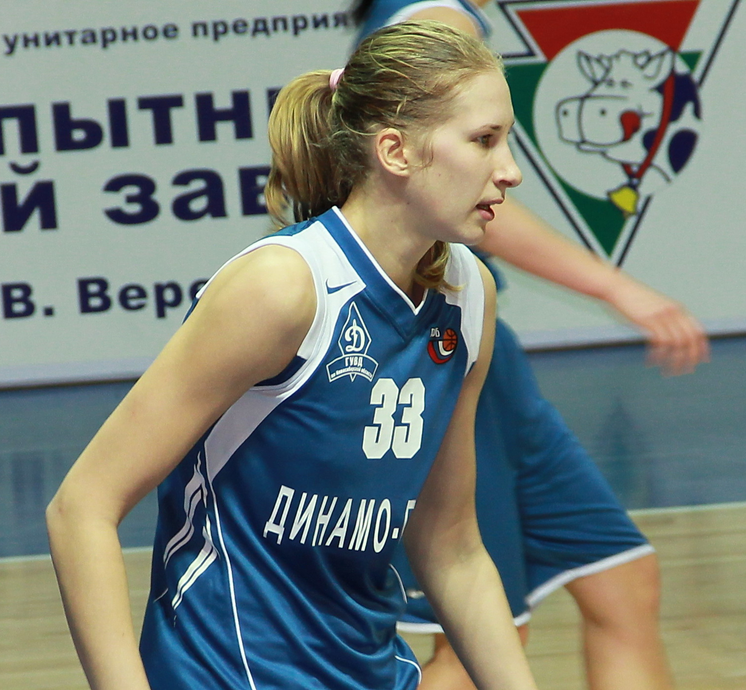 Russia, Vologda, Natalia Myasoedova in game «Vologda-Chevakata» vs «Dinamo-GUVD» (Novosibirsk)